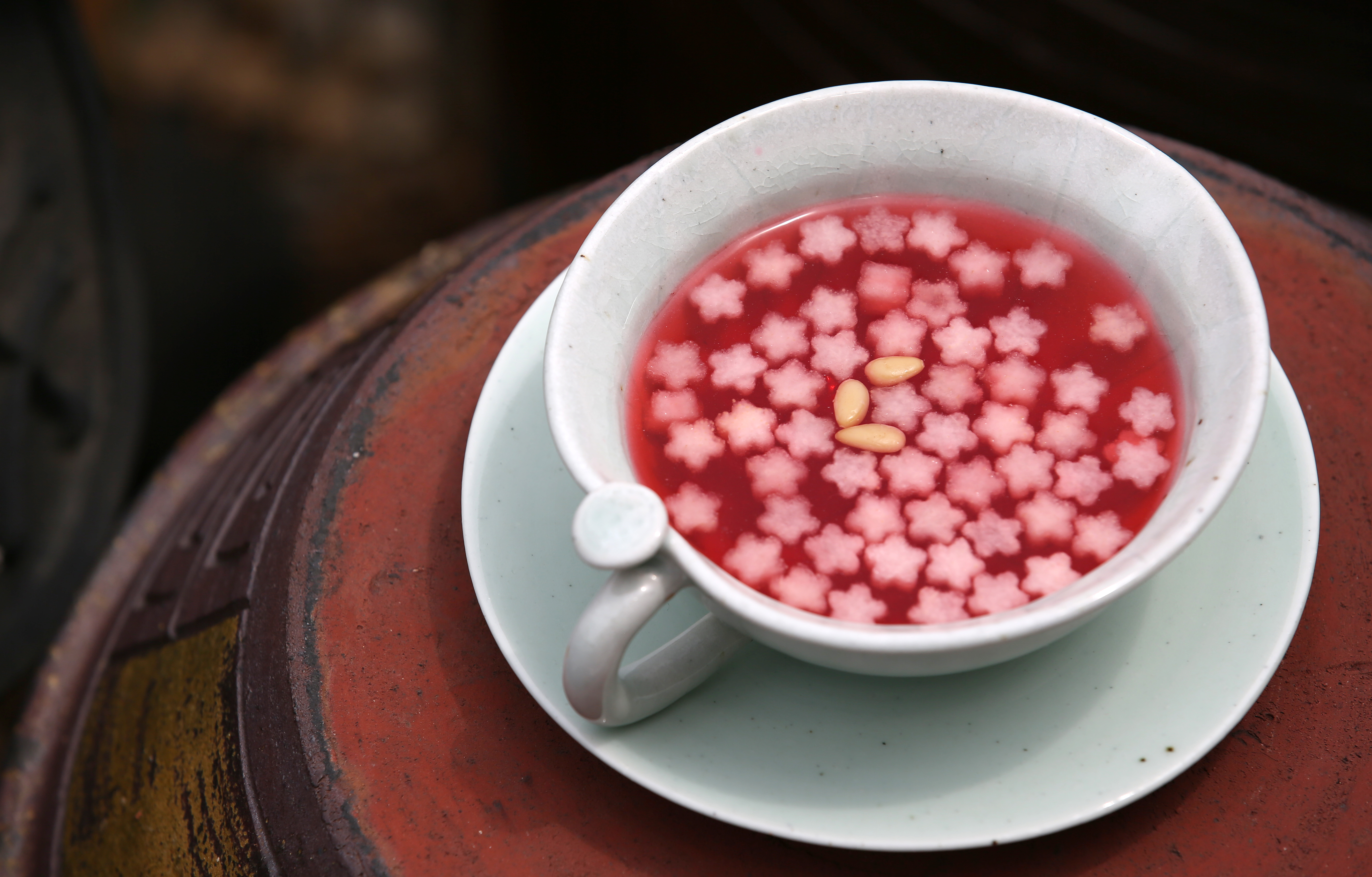 Cooking for Omija Punch